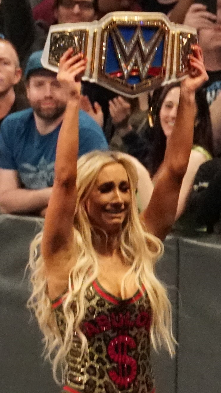 Carmella after winning the WWE SmackDown Women's Championship in April 2018.